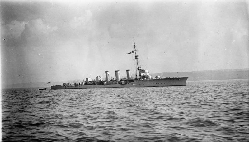 Photograph of British Arethusa class cruiser HMS INCONSTANT.